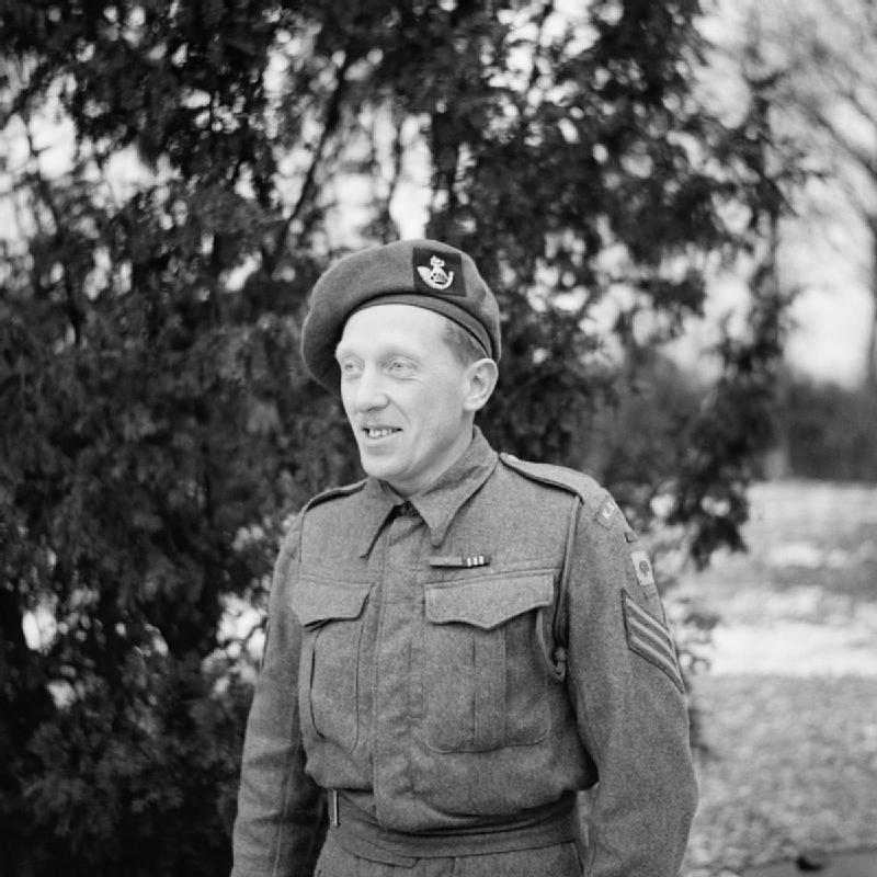 Portrait of George Harold Eardley, awarded the Victoria Cross: Holland, 16 October 1944.